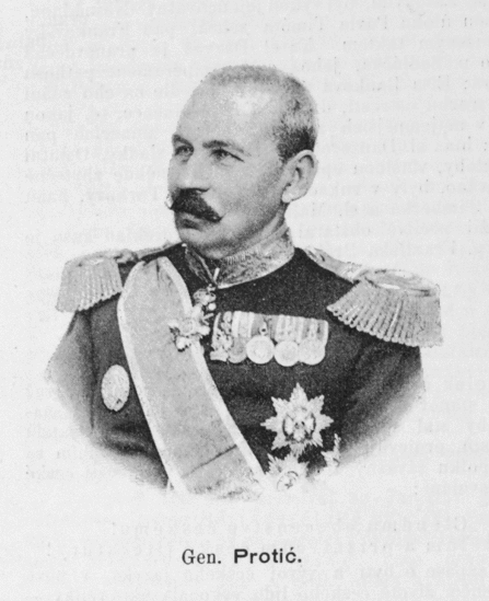 Portrait of Kosta Protić (1831-1892), Serbian general, later regent.